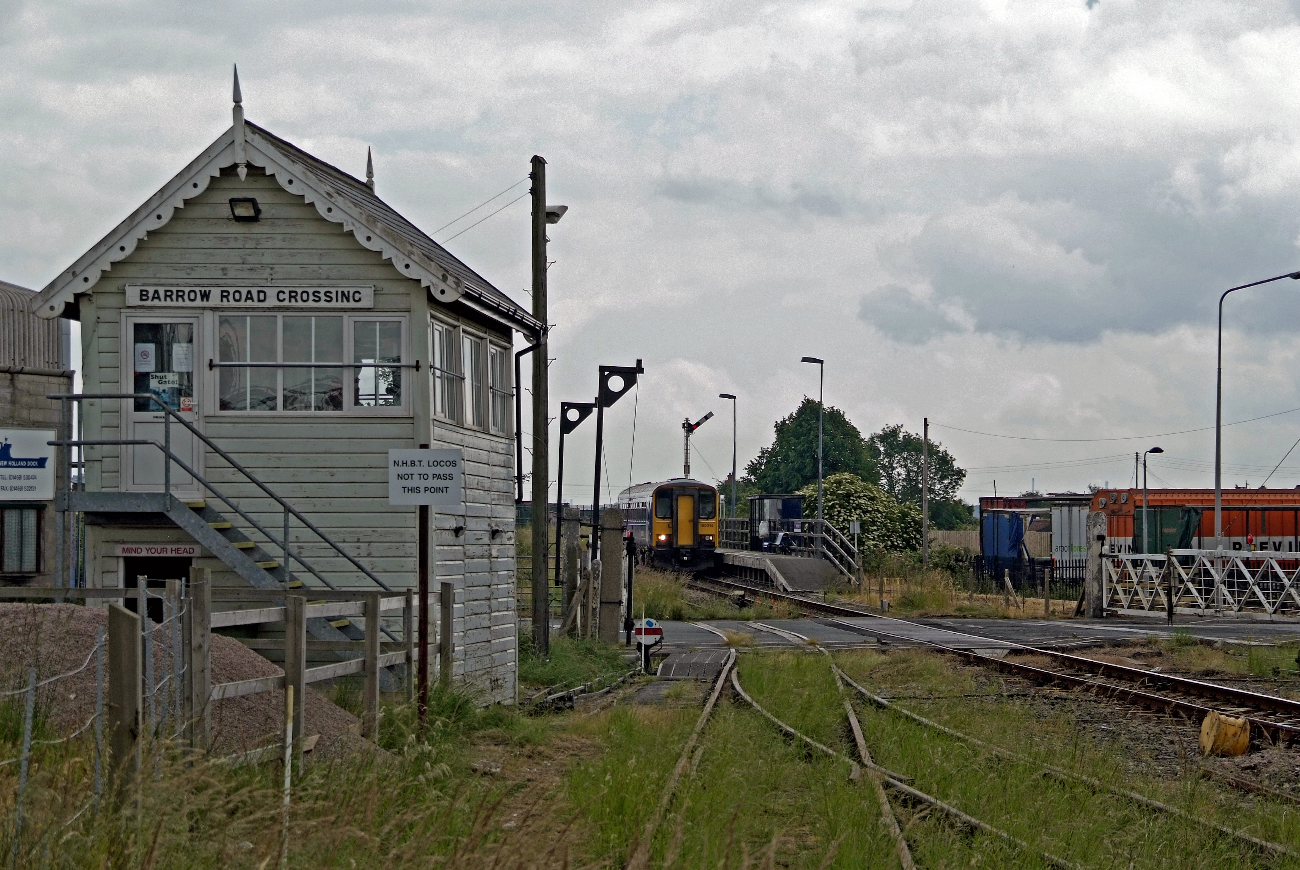 Photo shows Barrow Road level crossing, signal box and New Holland Station. The train is a service to Barton Upon Humber.